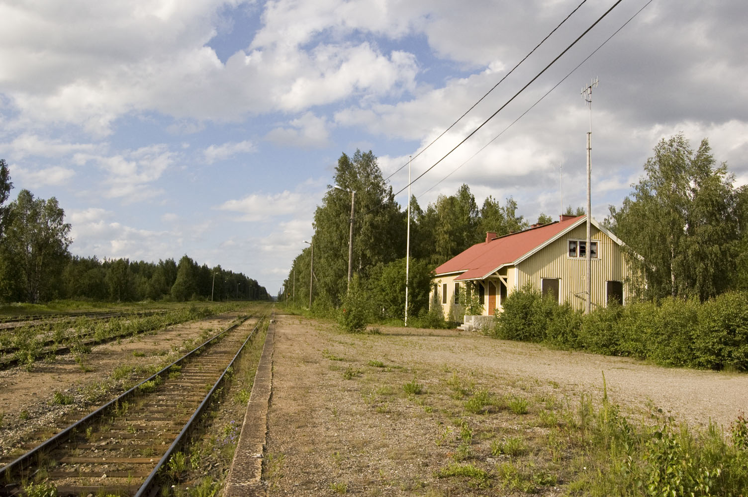 Hyrynsalmi railway station, Hyrynsalmi municipality, Hyrynsalmi, Finland.